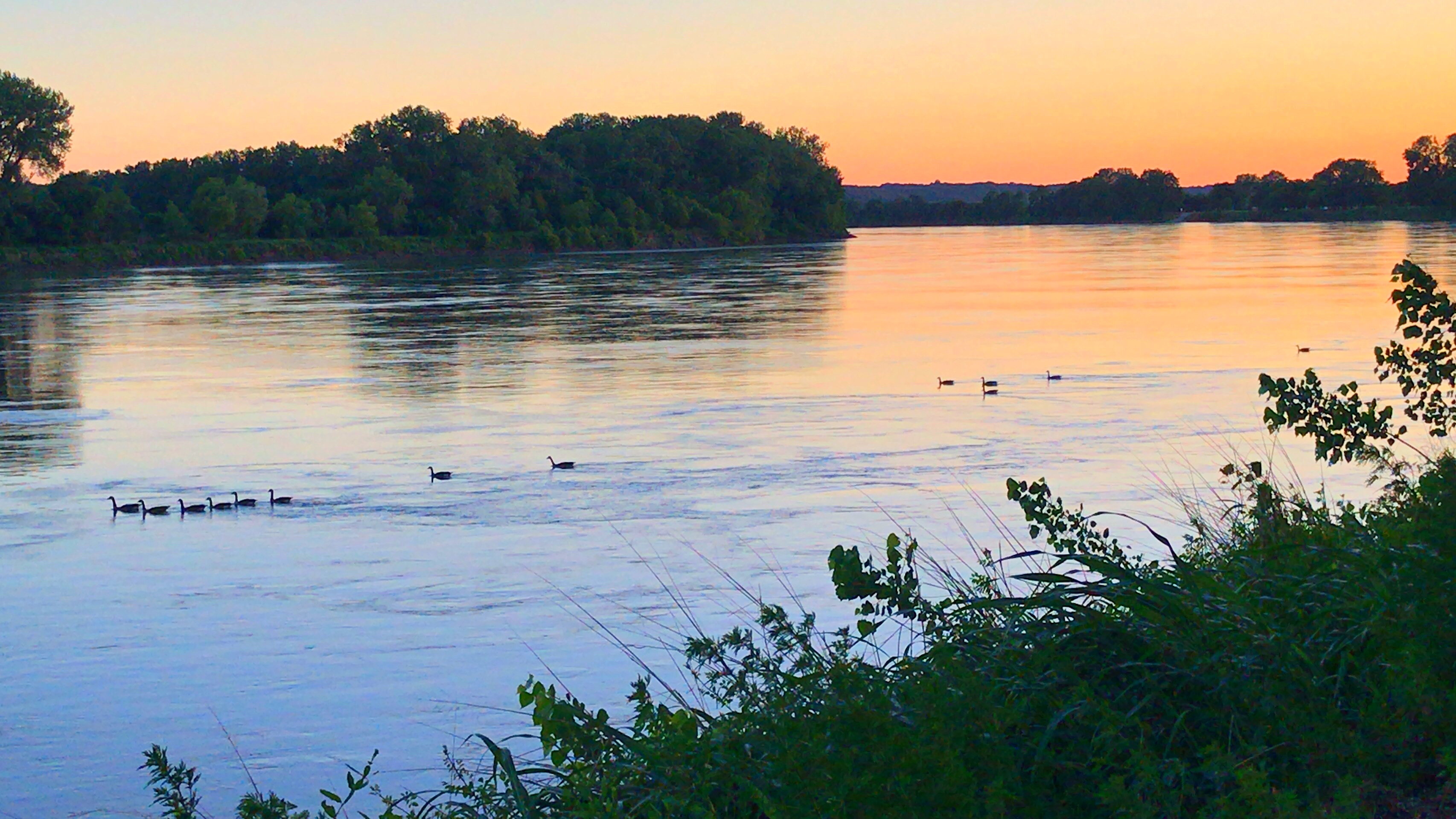 Canada Geese on the Missouri River. PHOTO WALK ENGLISH LANDING PARK